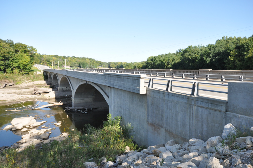 Lincoln Highway-Raccoon River Rural Segment, Greene County, Iowa.